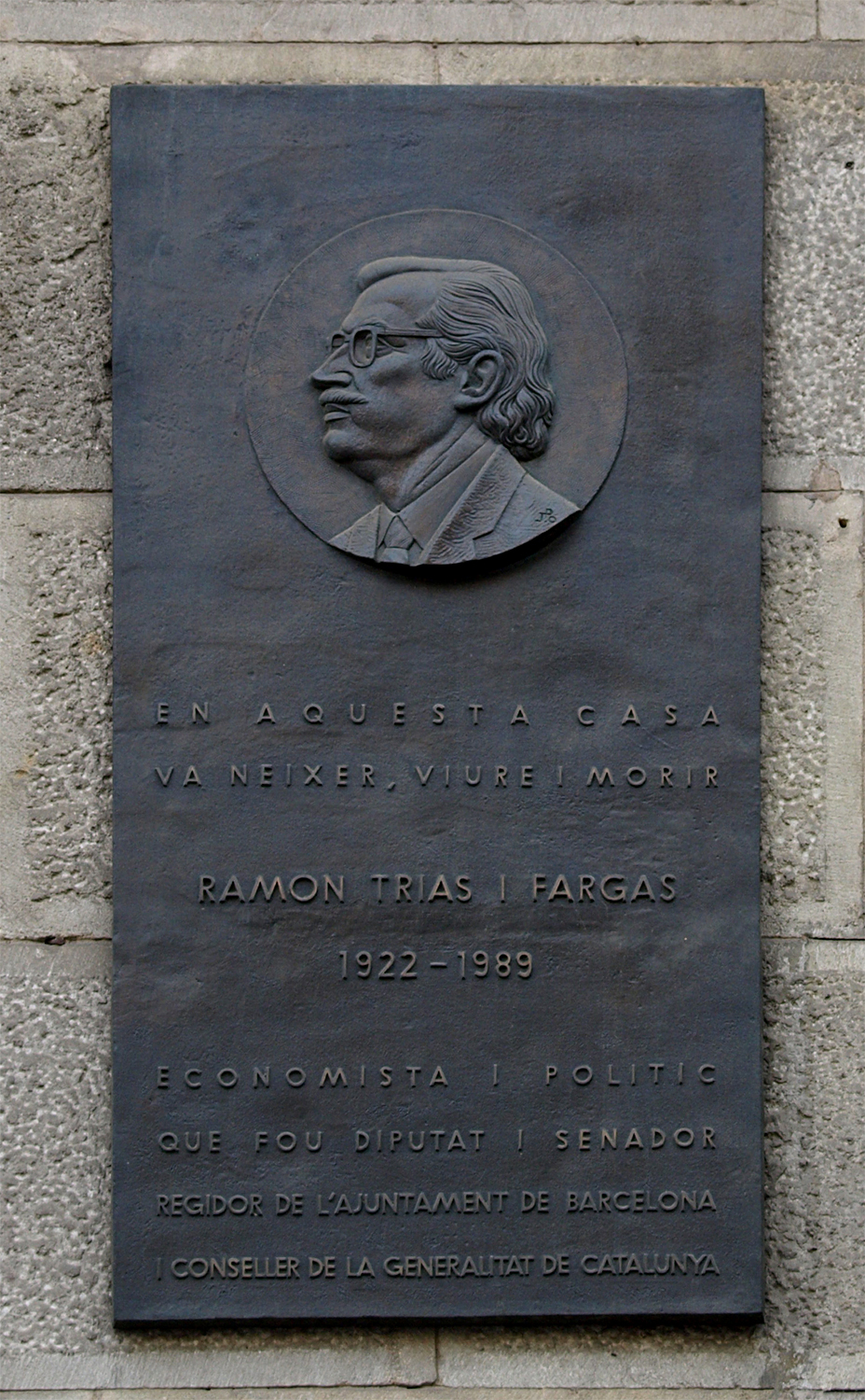 Casa Fargas - Catalan Modernisme (1907 - 1909, Enric Sagnier)